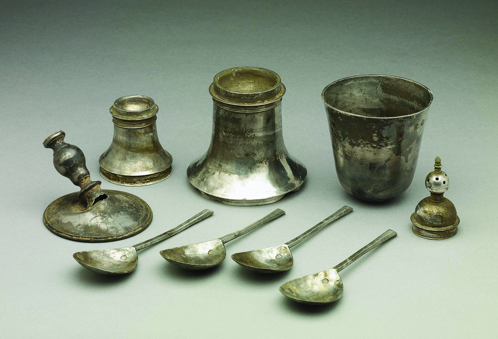 Nether Stowey hoard - inc. Silver hoard in an earthenware vessel - a bell and several spoons ref (Treasure: 2008 T645) from Portable Antiquities Scheme